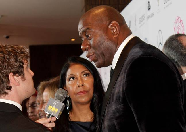 Magic Johnson and wife, Cookie Johnson, at the Mercedes-Benz Carousel of Hope Gala 2014